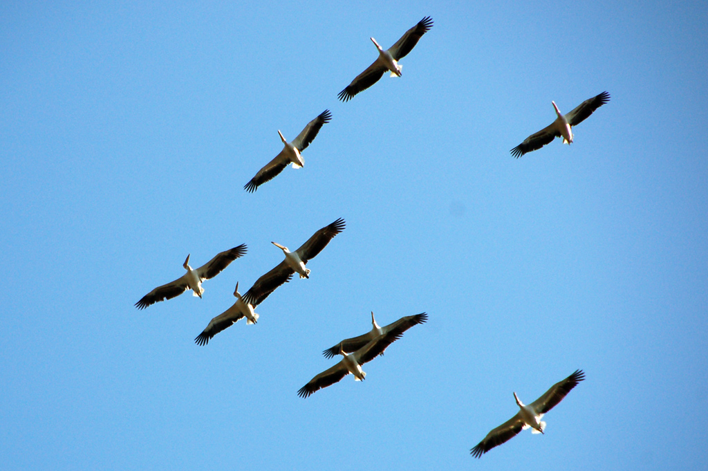 A Great White Pelicans flying in Gambia.